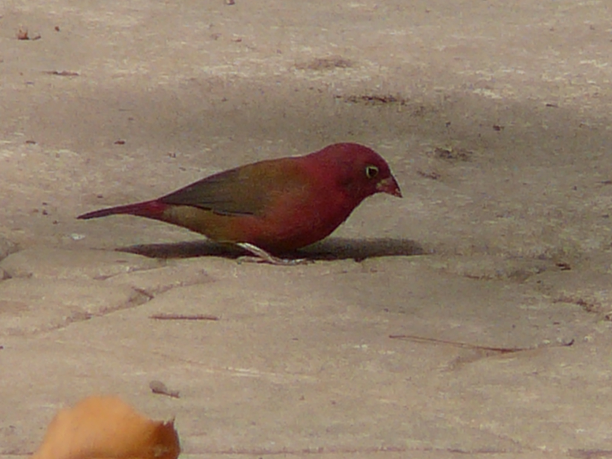 Red-billed Firefinch, male